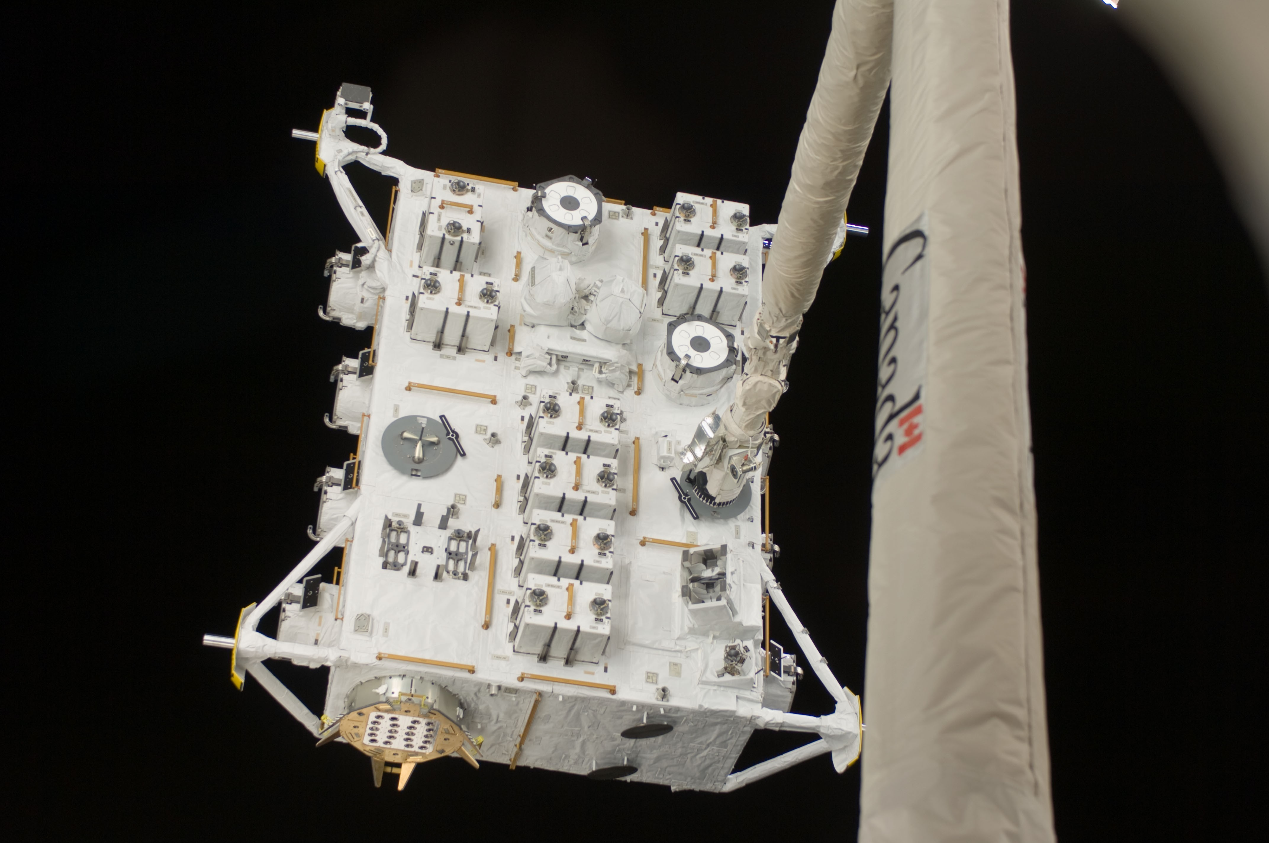 The Japanese Experiment Module - Exposed Facility (JEF) is pictured in the grasp of the Space Shuttle Endeavour's remote manipulator system (RMS) arm during flight day four robotics activity. Astronauts also began a series of five spacewalks on this day to continue work on the International Space Station.